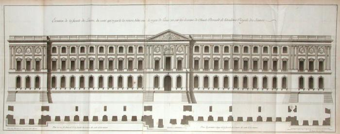 Engraving from Jean Mariette's L'Architecture françoise (1738) depicting the design of the southern facade of the eastern end of the Louvre (the "Old Louvre"), facing the River Seine, constructed during the reign of Louis XIV, according to designs by Claude Perrault.